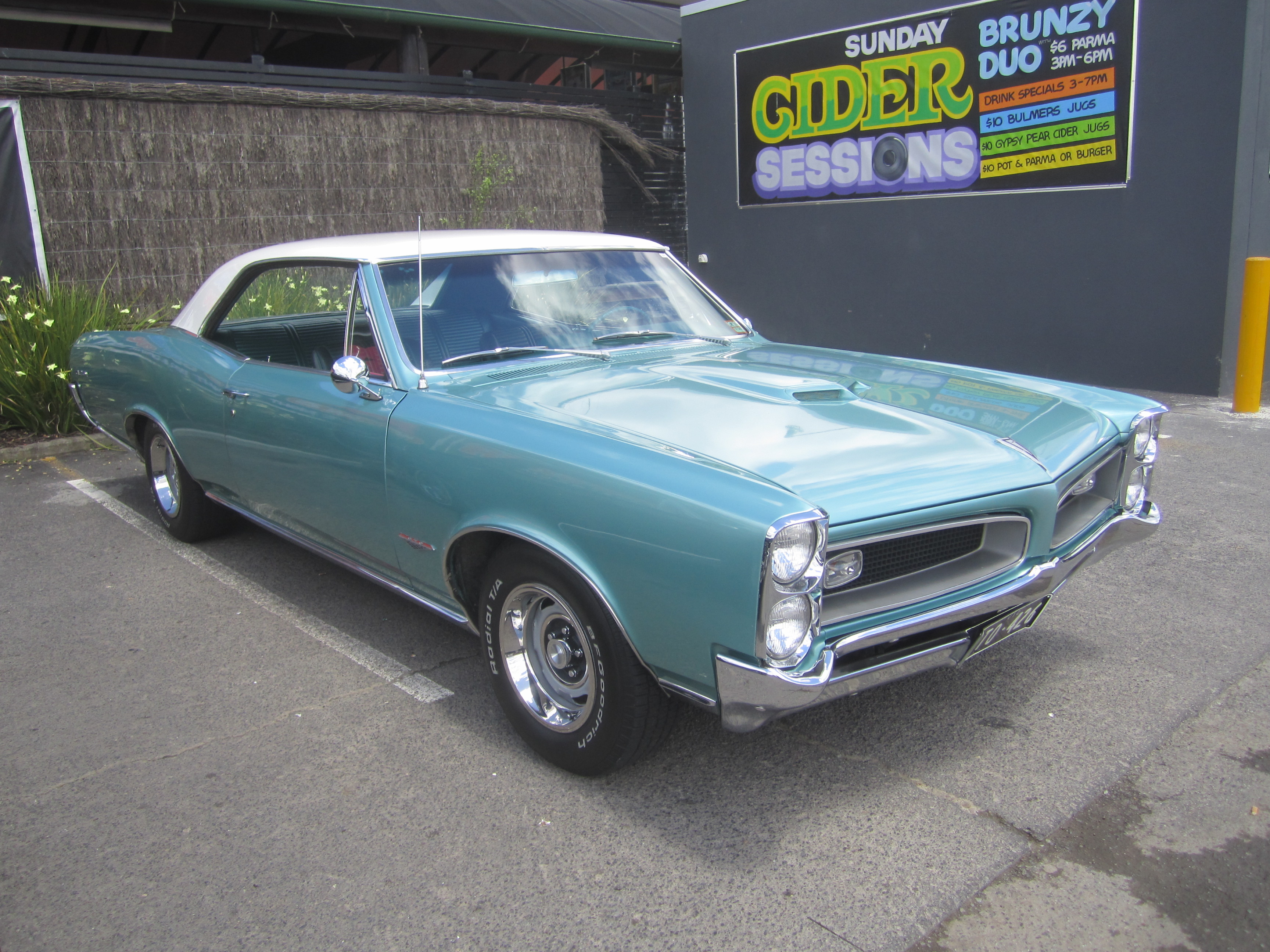 Hardtop and Convertible available. Engine; 360bhp 400 cu in V8.